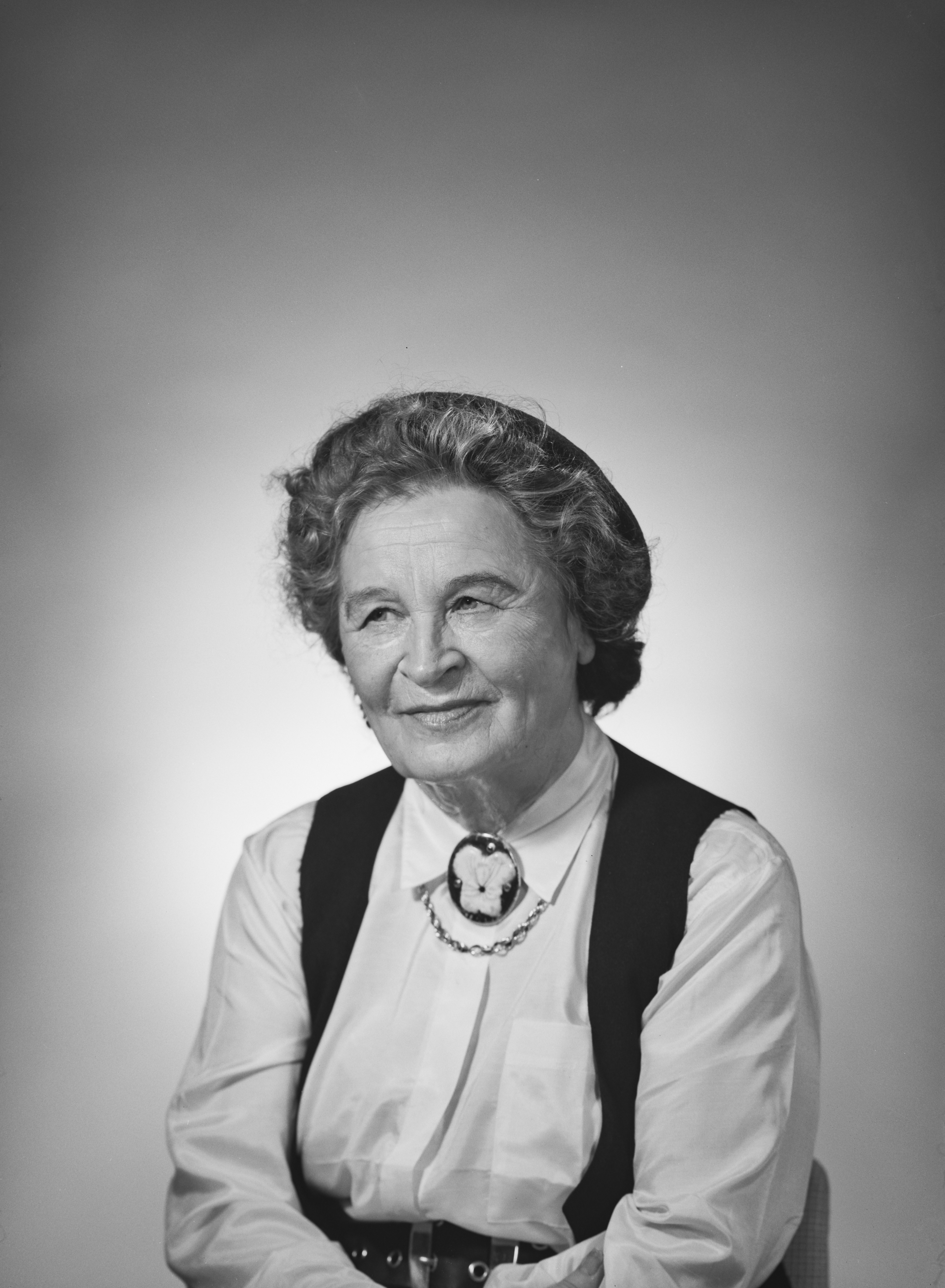 Photograph of the Finnish actor Elvi Saarnio (1919–2002).